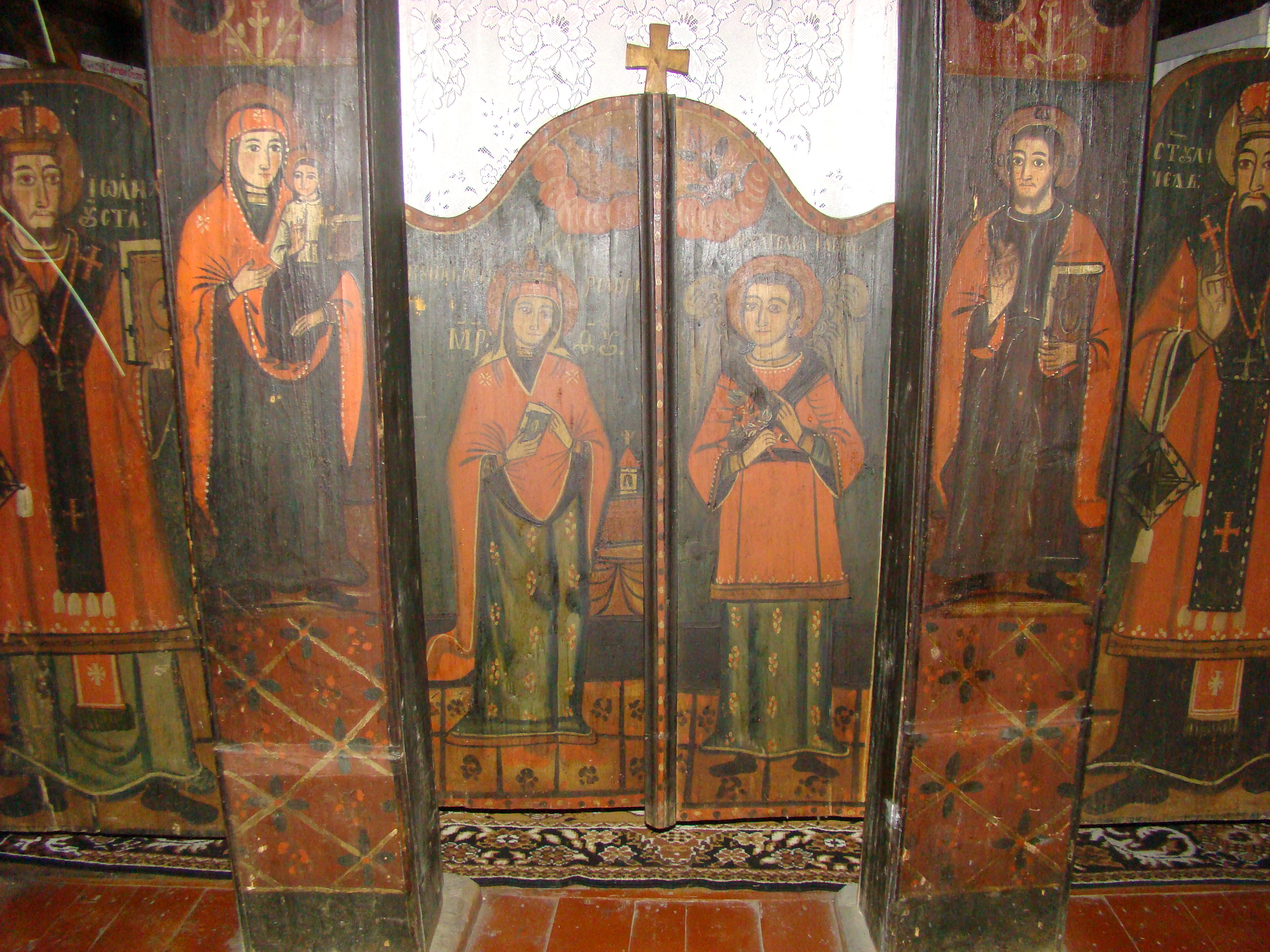 Rotărești, Bihor county, Romania: the wooden church